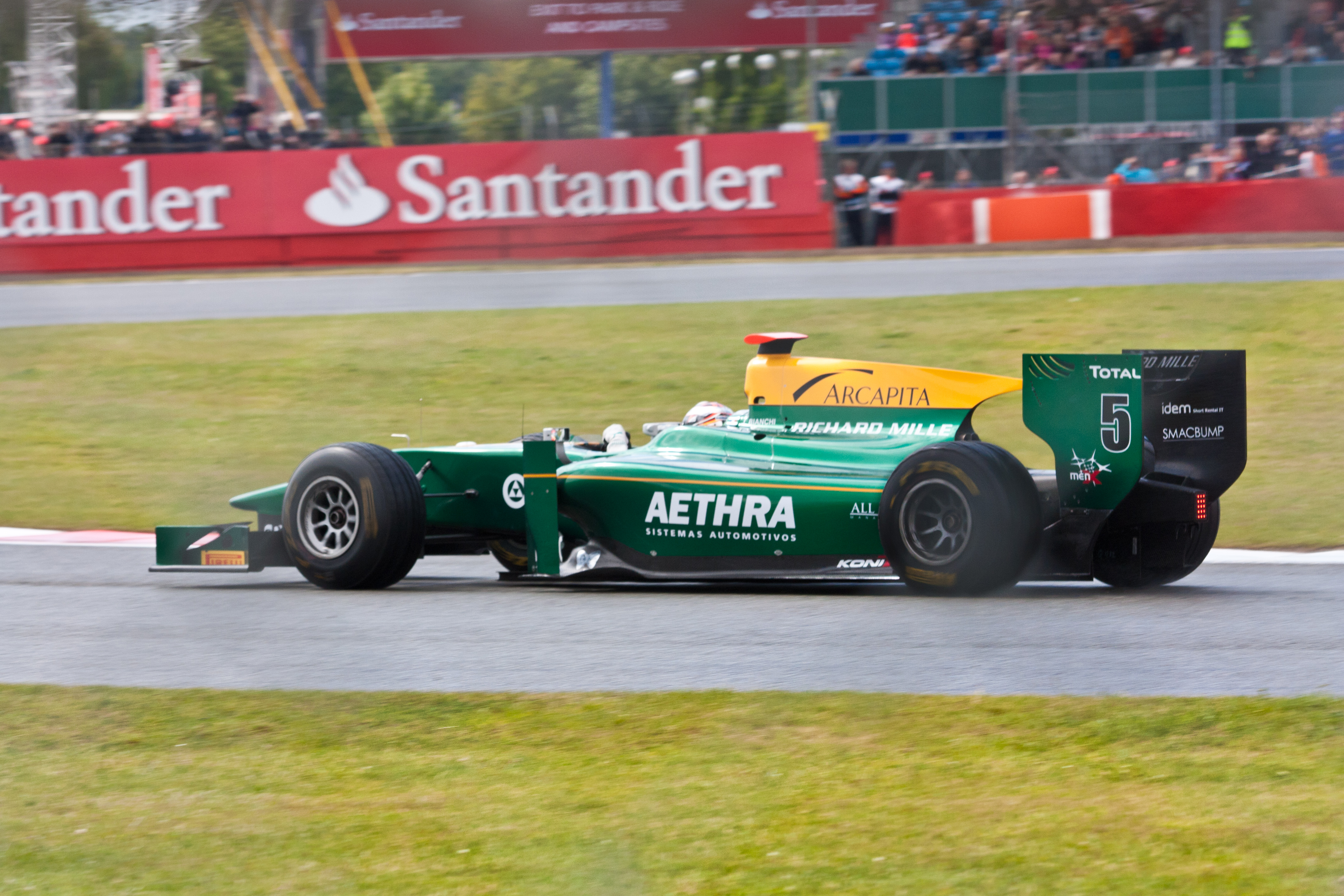 Jules Bianchi (Lotus ART), Silverstone 2011.